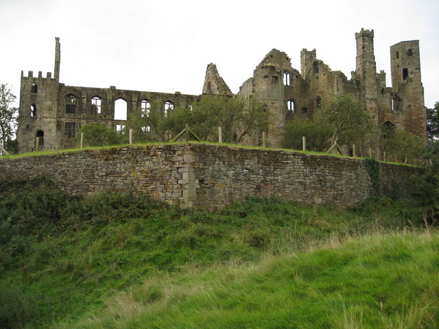 Wingfield Manor